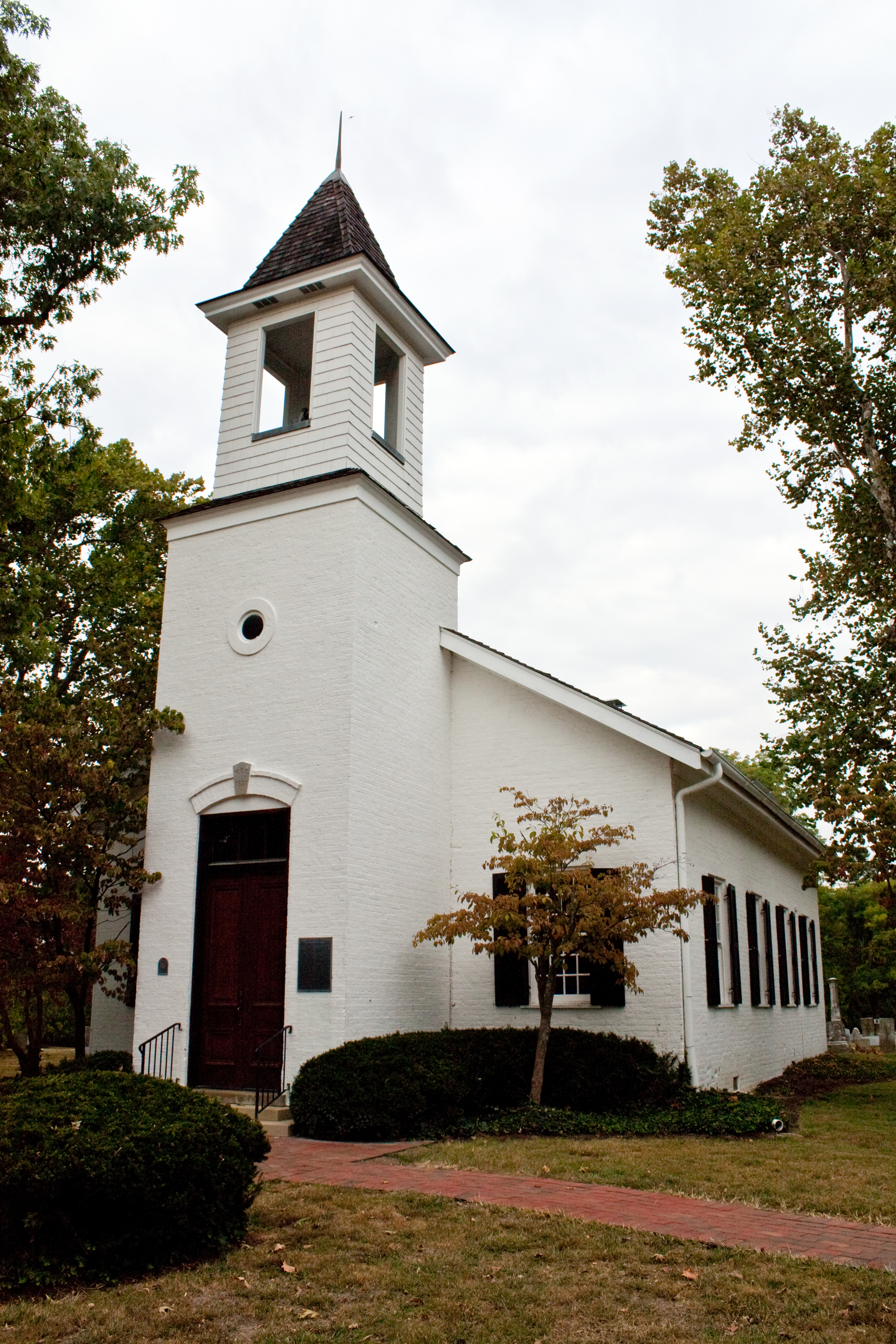 United Methodist Church in Indian Hill, Ohio. Also known as the "Old Armstrong Chapel". Photo by Greg Hume.